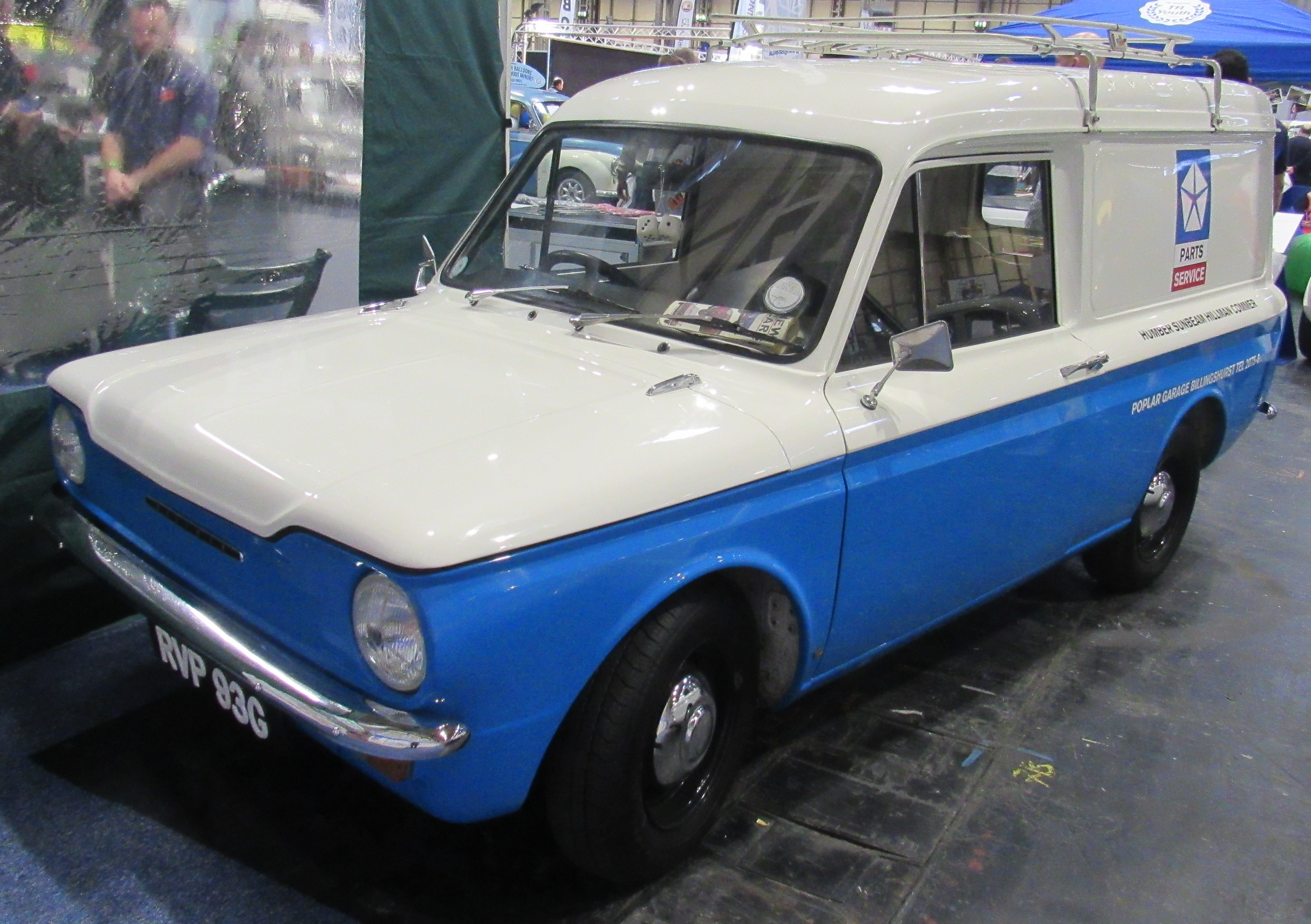 1969 Hillman Imp Van 915cc Front Taken at the NEC Classic Motor Show 2017